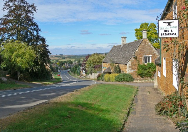 A view down Main Street in Rockingham The Old Forge Bed & Breakfast is on the right of the picture.